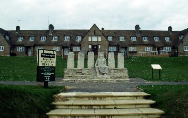 Tolpuddle Martyrs' Museum. A museum commemorating the Tolpuddle martyrs is housed in this group of cottages at the west end of Tolpuddle village., Dorset, UK.